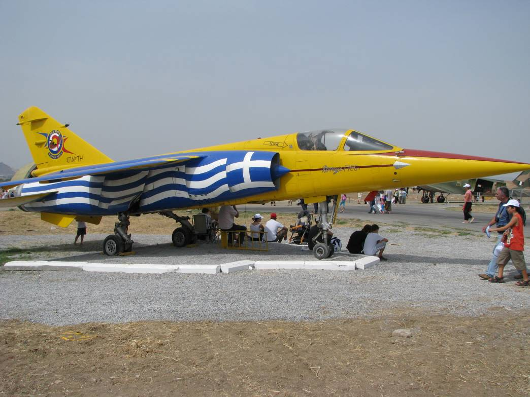 A Hellenic Air Force Dassault Mirage F-1CG displayed at the 2008 HAF air show, in Tanagra airbase, Greece